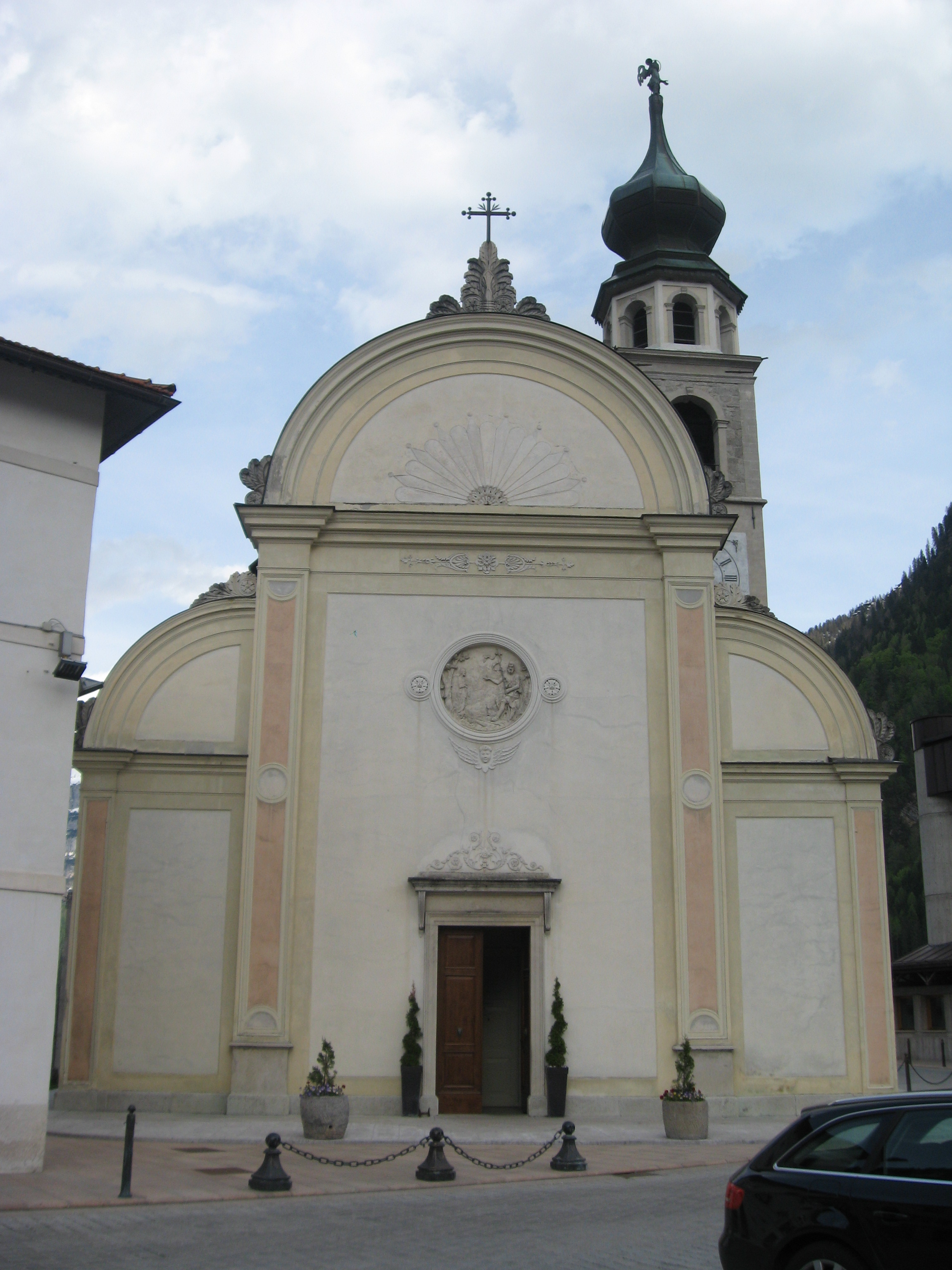 The Church of Canale d'Agordo